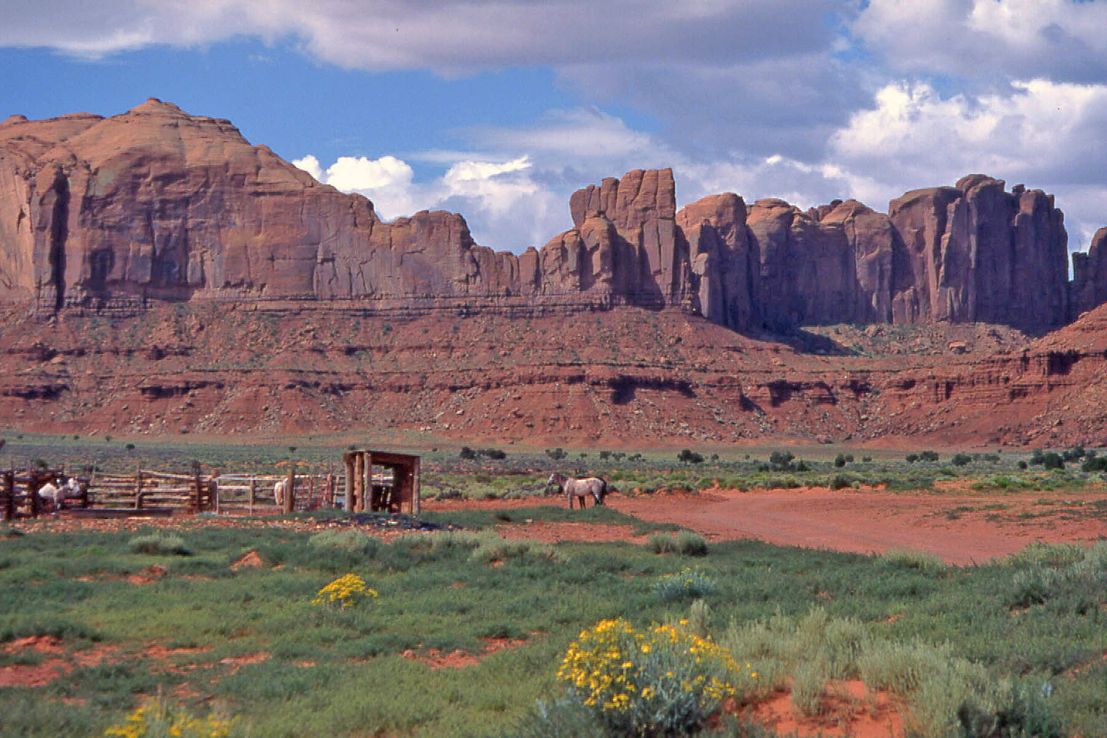 Monument Valley is a Navajo Indian Reservation in an area bordering the states of Arizona (NO) and Utha (SO). The region is known for its up to 600 meters high monolithic sandstone formations.